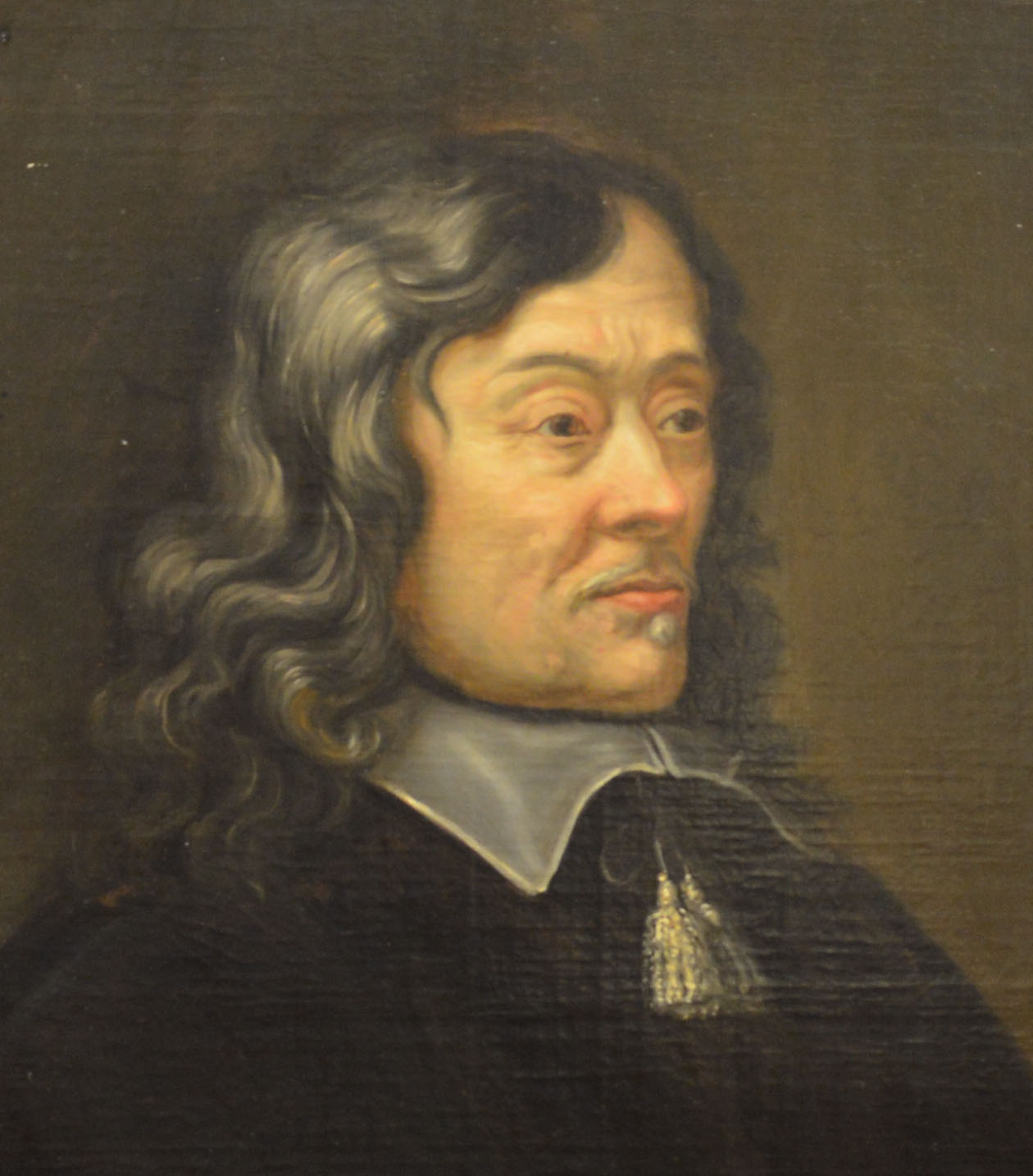 Claudius Salmasius (1588-1653), French classical scholar.